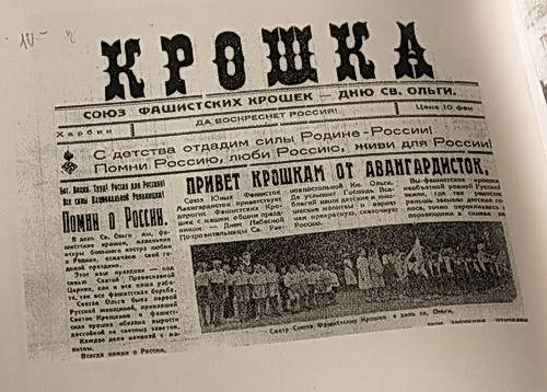 newspaper VFP